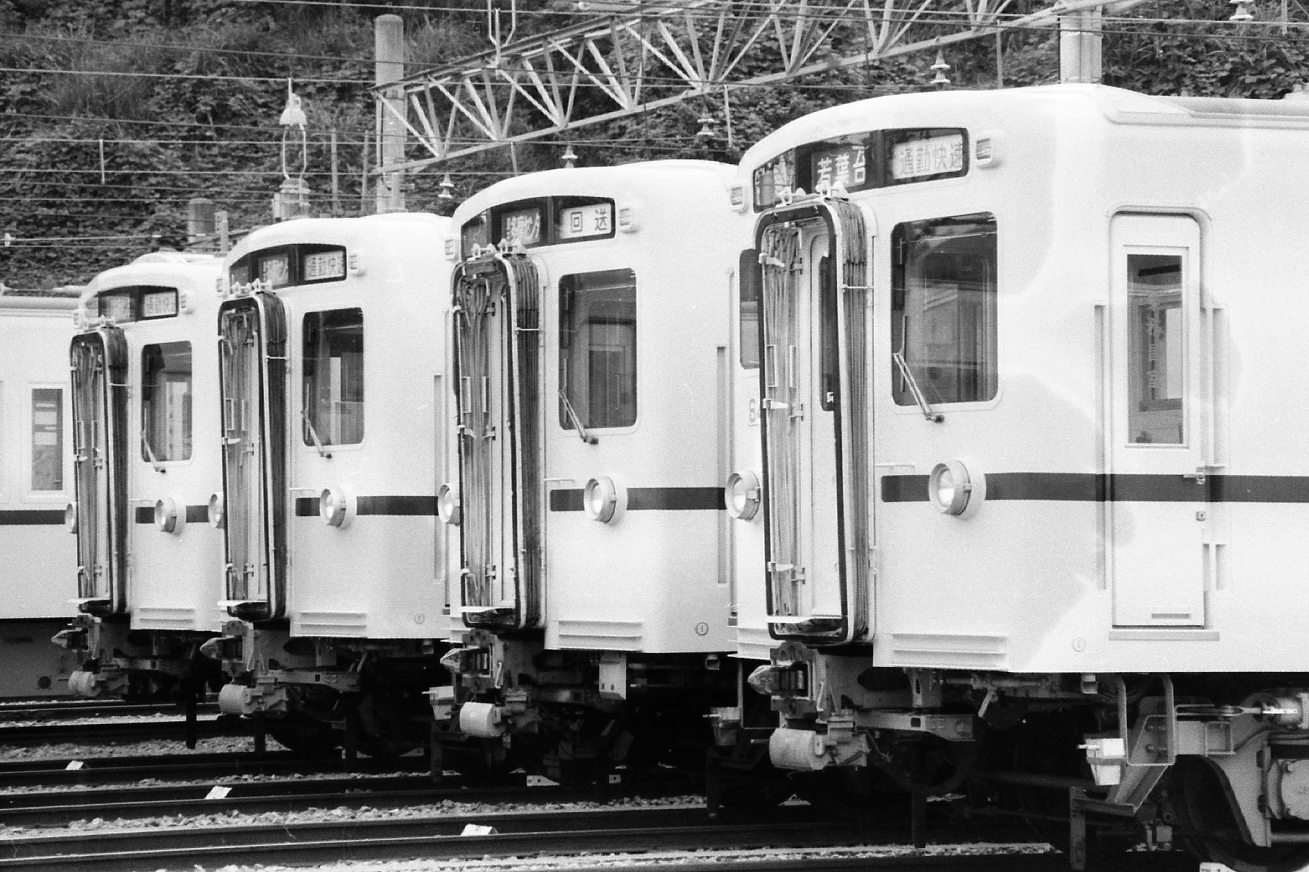 Keio 6000 series four 2 car trains. All two car units were not used in off peak hours and sit on Wakabadai Depot.